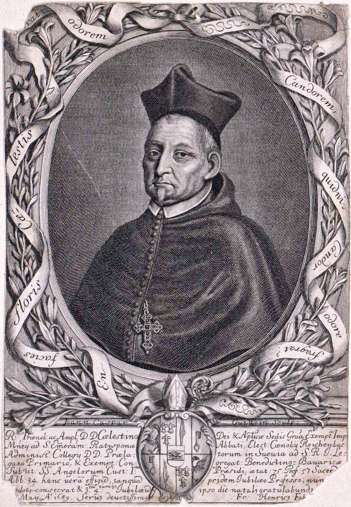 Coelestin Vogl (1613-1691) Benediktiner, Abt von St. Emmeram in Regensburg